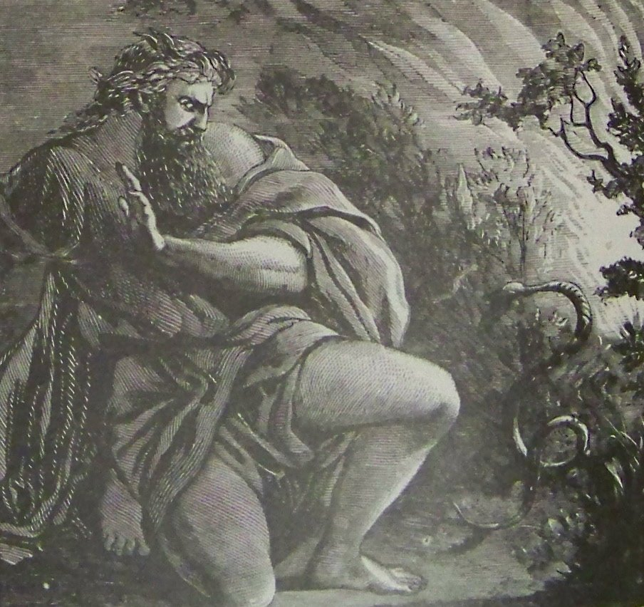 Moses' Rod Turned into a Serpent, illustration from the 1890 Holman Bible